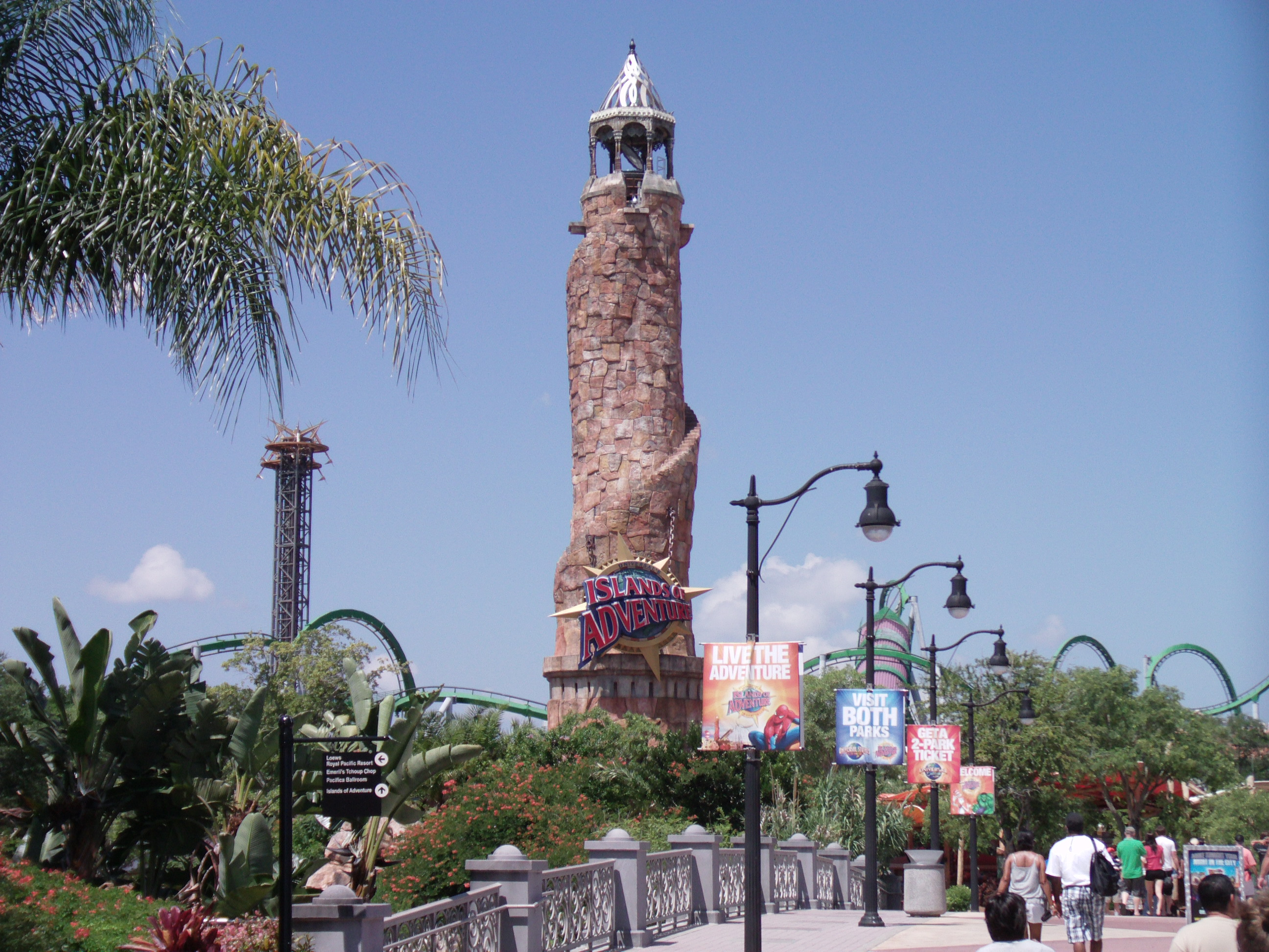 The ancient lighthouse at the entrance of Islands of Adventure.